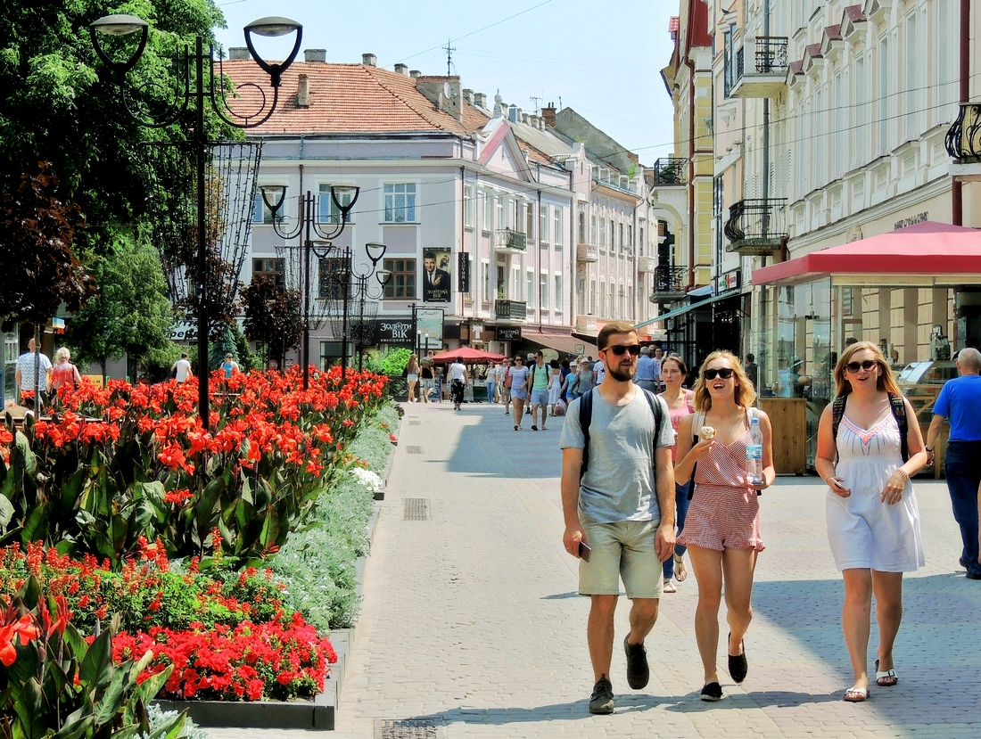 Ternopil. Street in the city centre